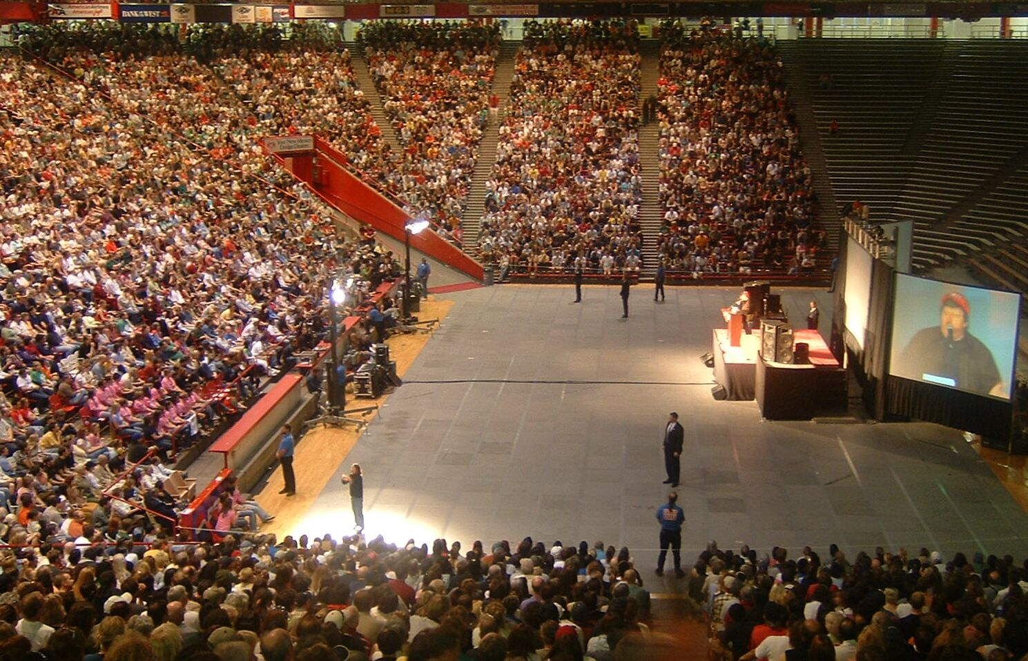 Michael Moore on a Rally during his "Slacker Uprising Tour" weeks before the 2004 Presidential Election in Albuquerque/ New Mexico (USA).